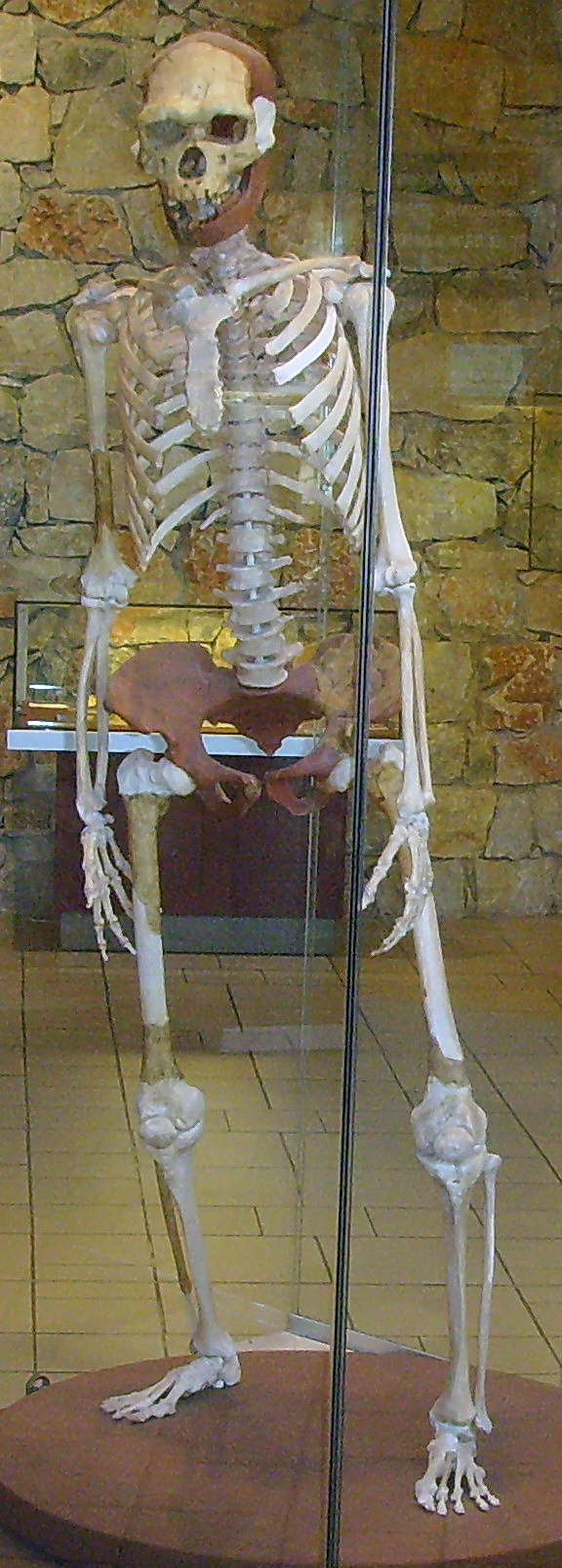 Homo erectus from Tautavel, France (reconstruction, Museum Tautavel)